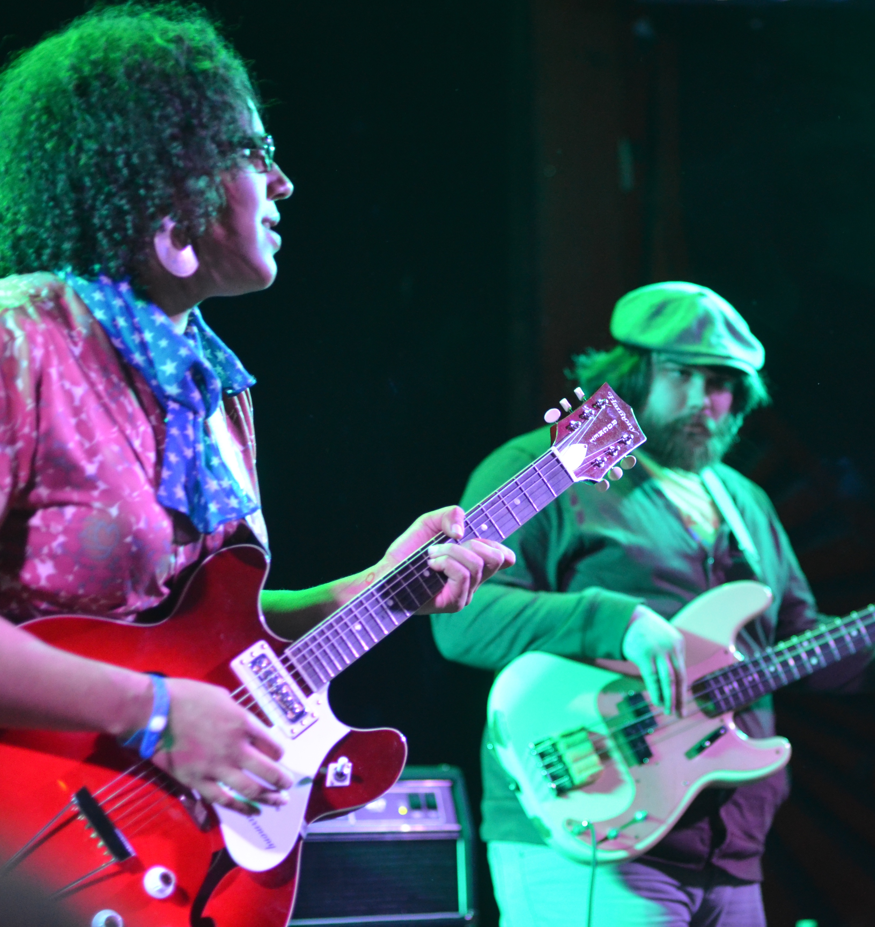 Brittany and Zac of the rock group Alabama Shakes.